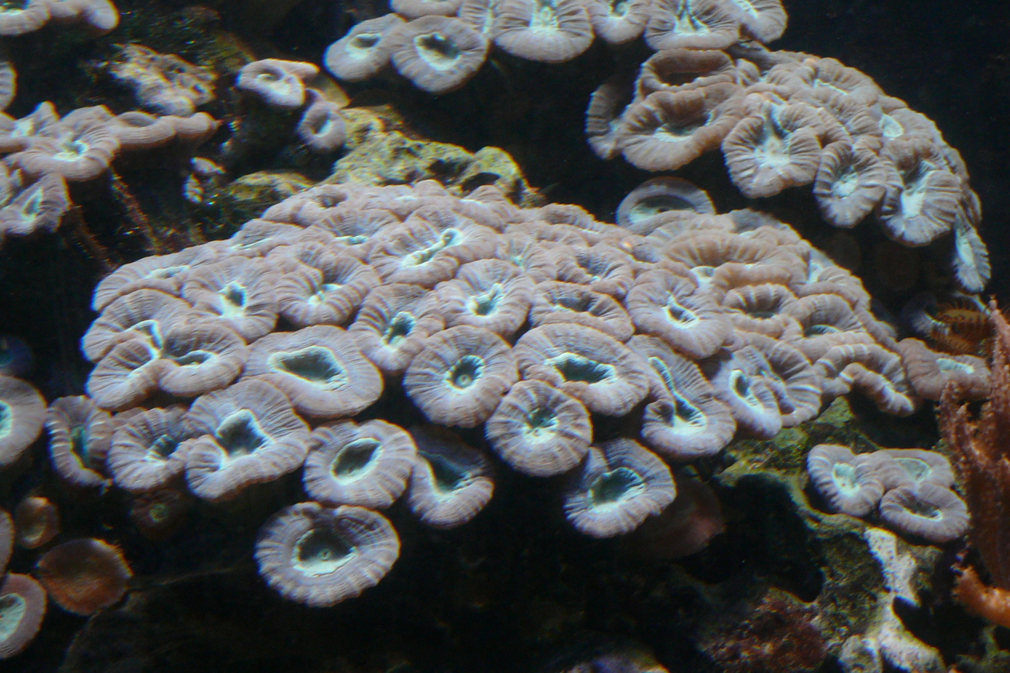 Caulastrea sp., a Stony coral